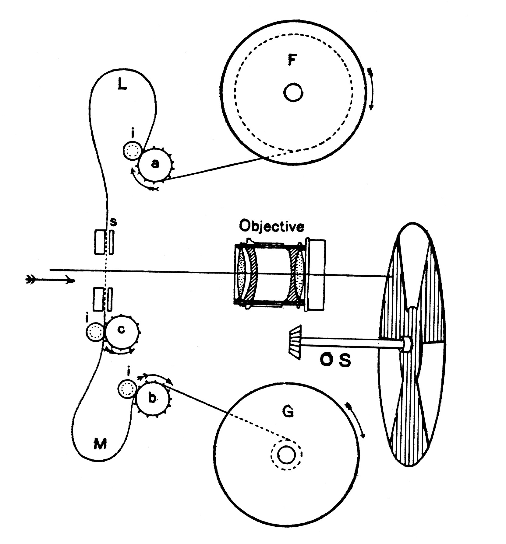 caption: "Fig. 226. Moving Picture Mechanism with Outside Shutter, O S. a b Sprocket wheels moving with uniform velocity. c Intermittent sprocket wheel which jerks down the short section of film between L and M. i Idlers to hold the film on the sprocket wheels. F Upper film reel, unwinding. G Lower film reel, winding up. S Aperture plate."